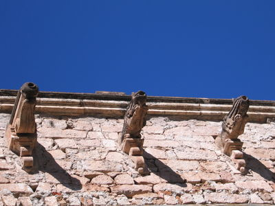 Photo of architectural detail of 16th century home in Bolanos, Jalisco